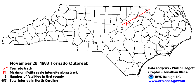 Graphic depicts path of the 1988 Raleigh tornado outbreak